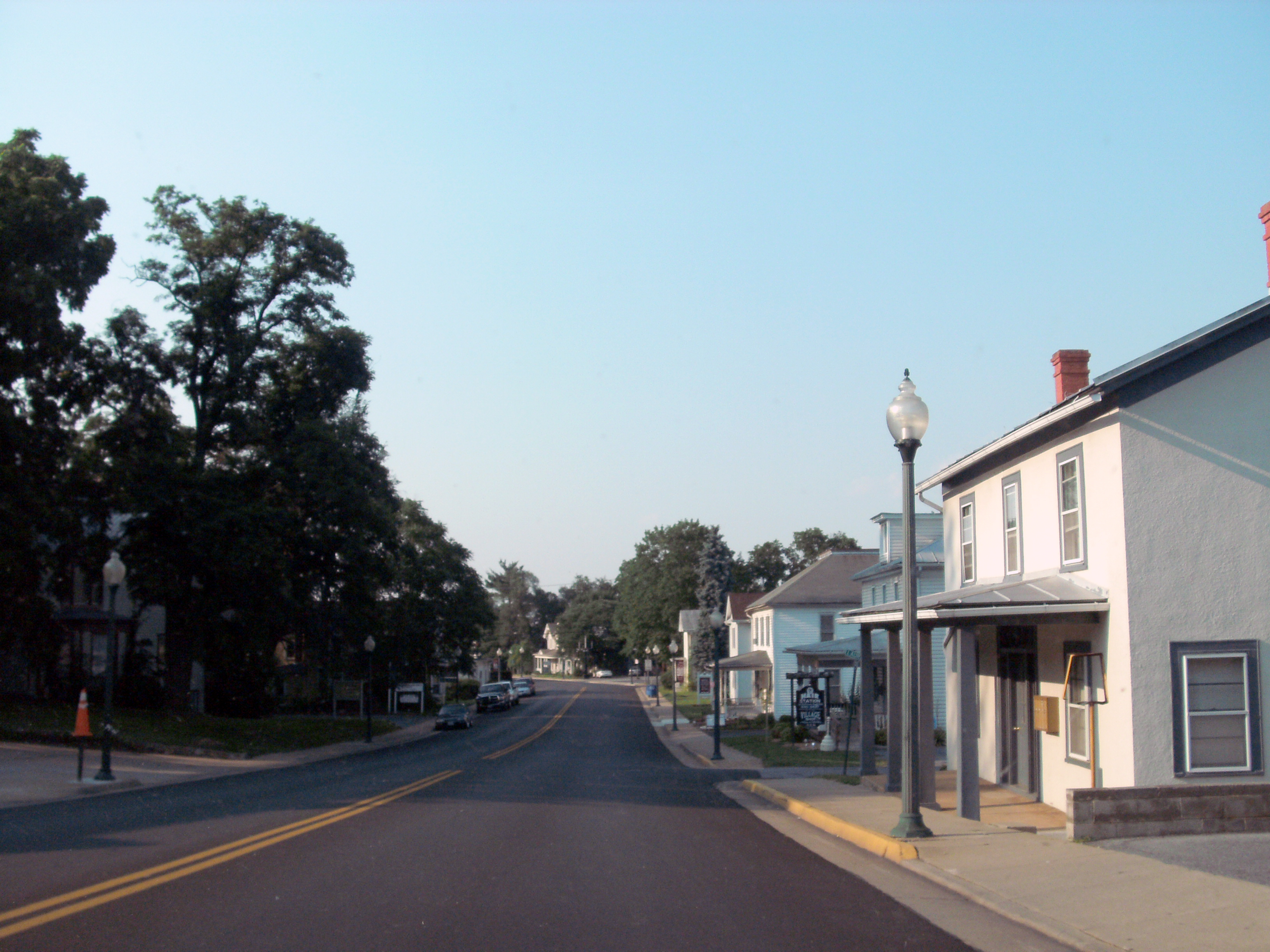 Lightened version of an image I took for Wikipedia